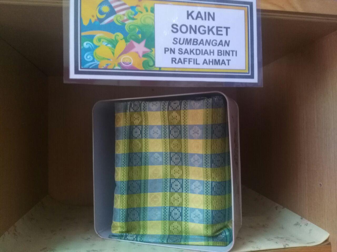 Songket